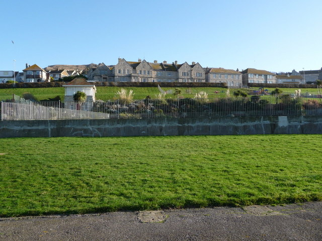 Portland: Victoria Gardens and old police station. Looking up from the western corner of Victoria Gardens, immediately in front of us is a concrete bank which allows the bowling green above it to be level. Behind the back hedge is the old police station.